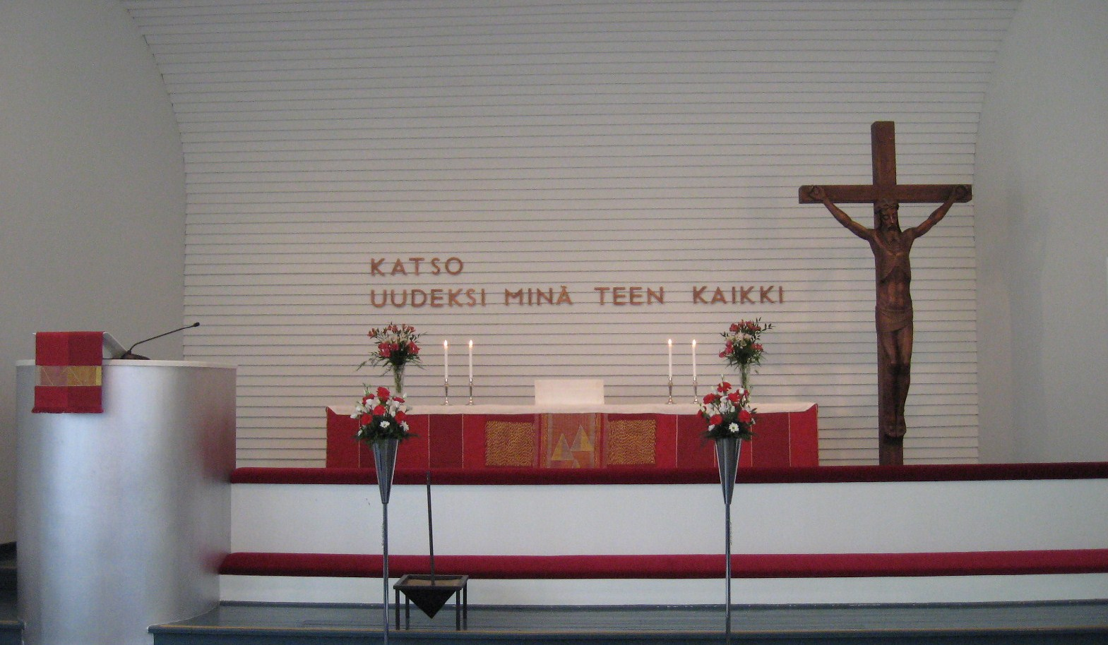 The altar of the Evangelic Lutheran church of Kannonkoski, Finland